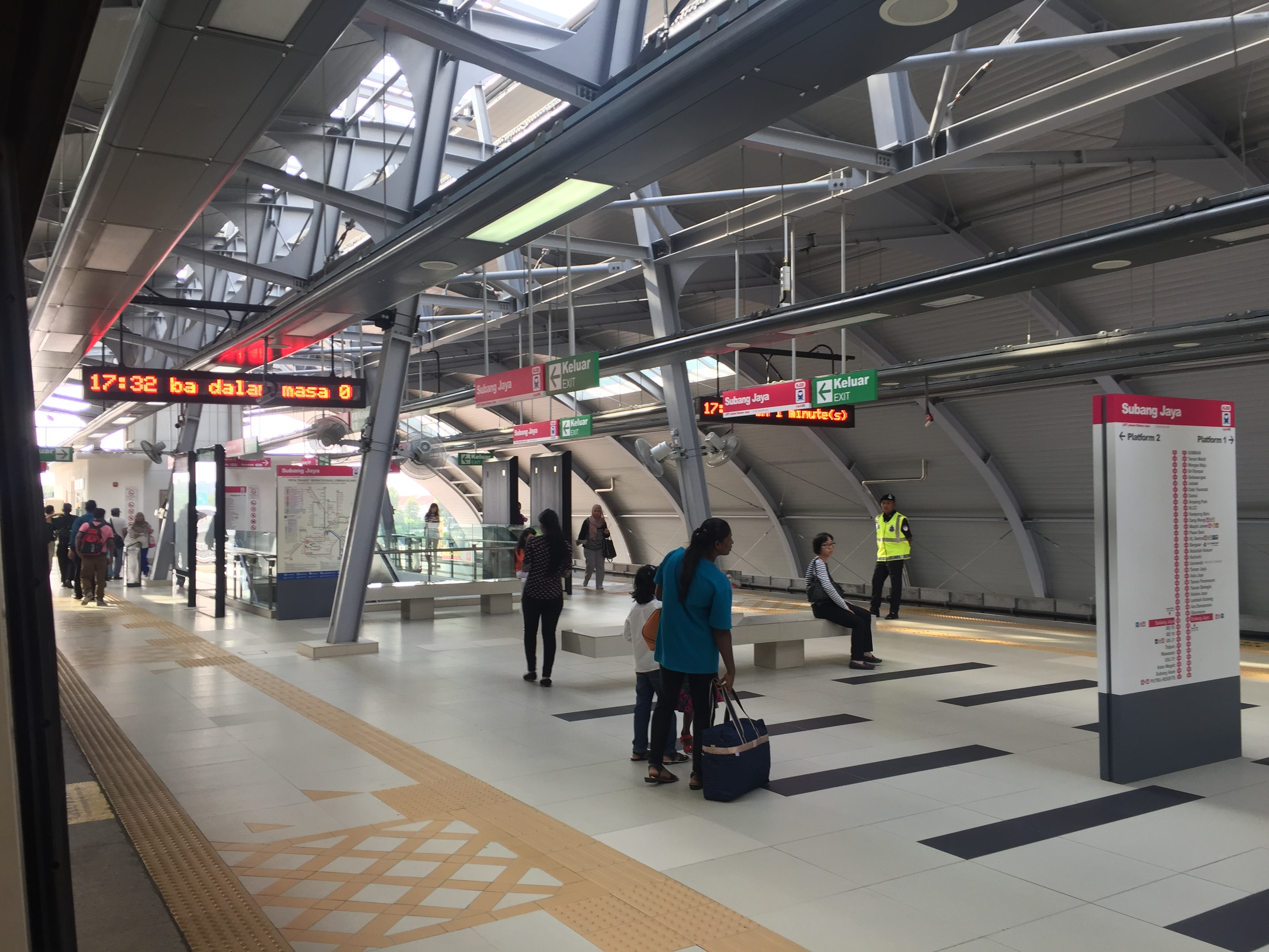 The island platform at Subang Jaya railway station's LRT section.